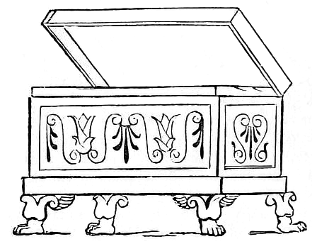 An acerra